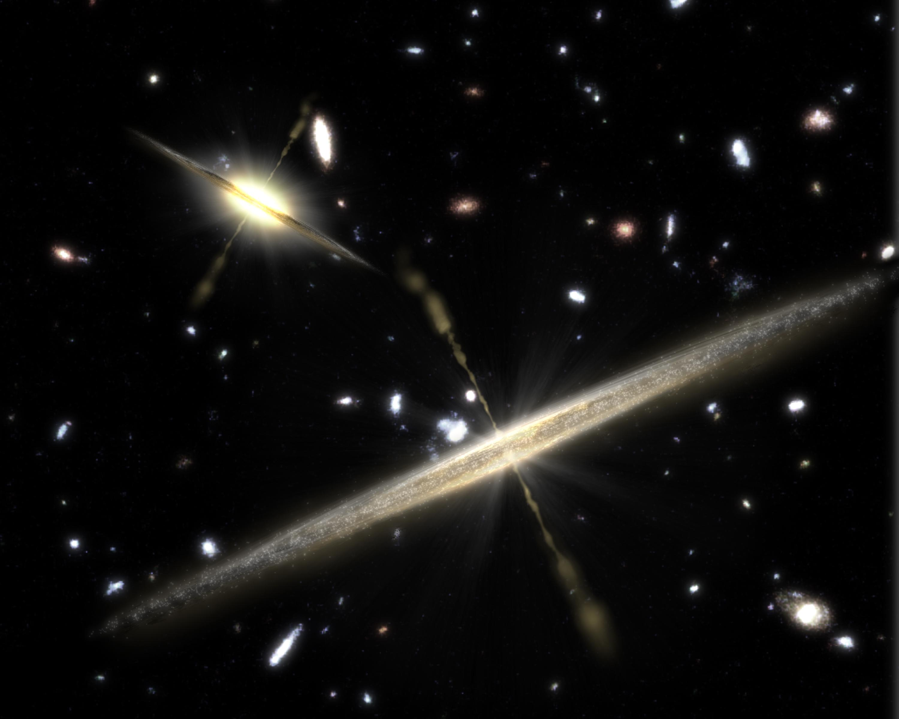 This artist's concept illustrates the two types of spiral galaxies that populate our universe: those with plump middles, or central bulges (upper left), and those lacking the bulge (foreground). New observations from NASA's Spitzer Space Telescope provide strong evidence that the slender, bulge-less galaxies can, like their chubbier counterparts, harbour super-massive black holes at their cores. Previously, astronomers thought that a galaxy without a bulge could not have a super-massive black hole. In this illustration, jets shooting away from the black holes are depicted as thin streams. The findings are reshaping theories of galaxy formation, suggesting that a galaxy's "waistline" does not determine whether it will be home to a big black hole.